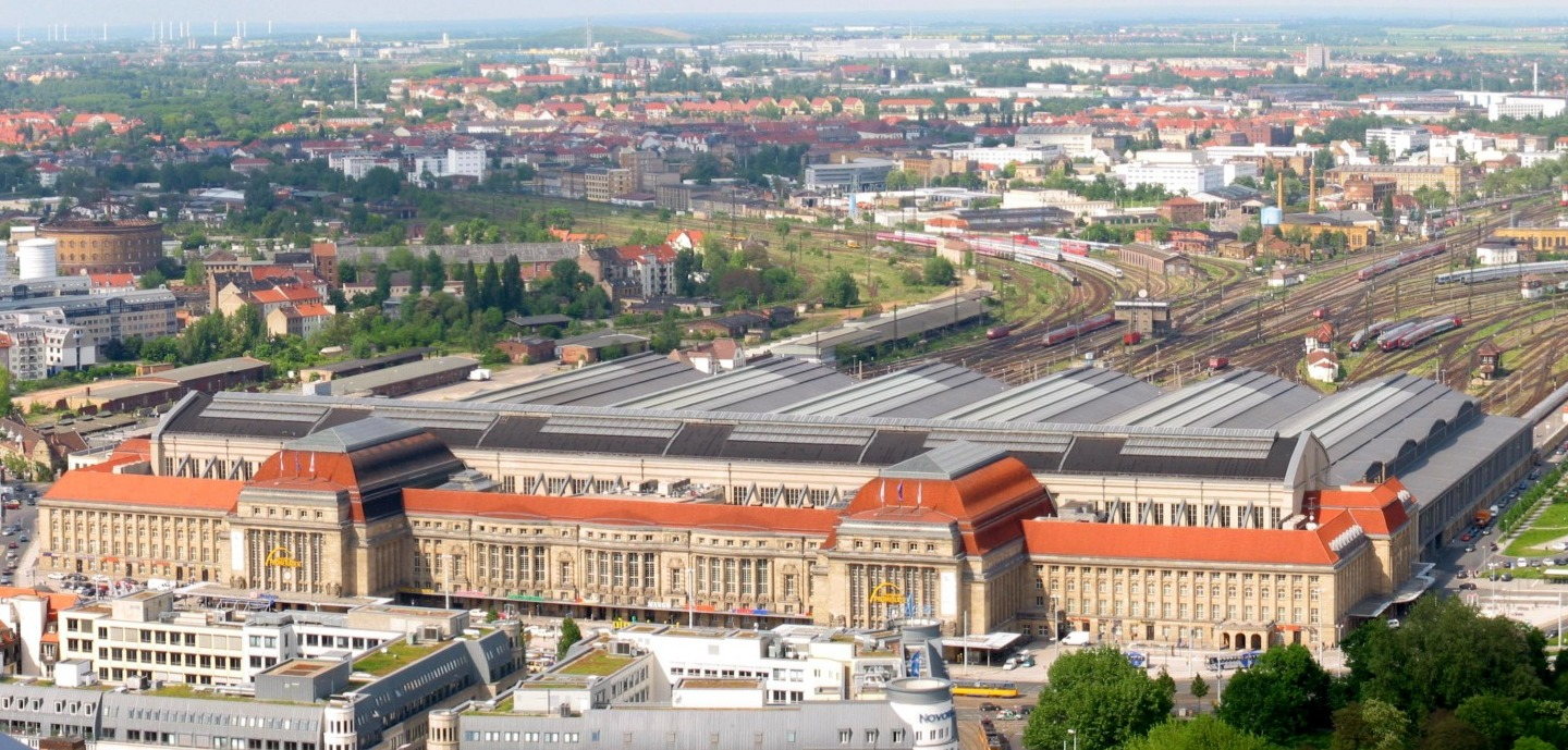 Leipzig central train station with its large track field in front on the right a park with a pool (Schwanenteich), in front of the park the roof of the opera house (Oper) on the right the high rise building Wintergartenhochhaus with the sign of Mustermesse (Leipzig fair), behind it the tracks to Engelsdorf – Riesa – Dresden (first German trunk line) and Stötteritz – Markkleeberg – Altenburg – Hof the tracks to the north lead to Dessau – Bitterfeld and Torgau – Falkenberg/Elster the line to the left leads to Halle and Plagwitz on the left behind the station an old goods station (Freiladebahnhof), behind it the unused gas holder Gasometer Nord